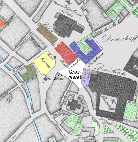 Grasmarkt square of Bremen in 1796; except of the of the Börse (stock exchange), the built up areas are almost the same as in 1638